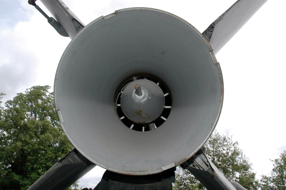 Rear view of nozzle on the first stage of the V-750 missile (S-75 Dvina system).